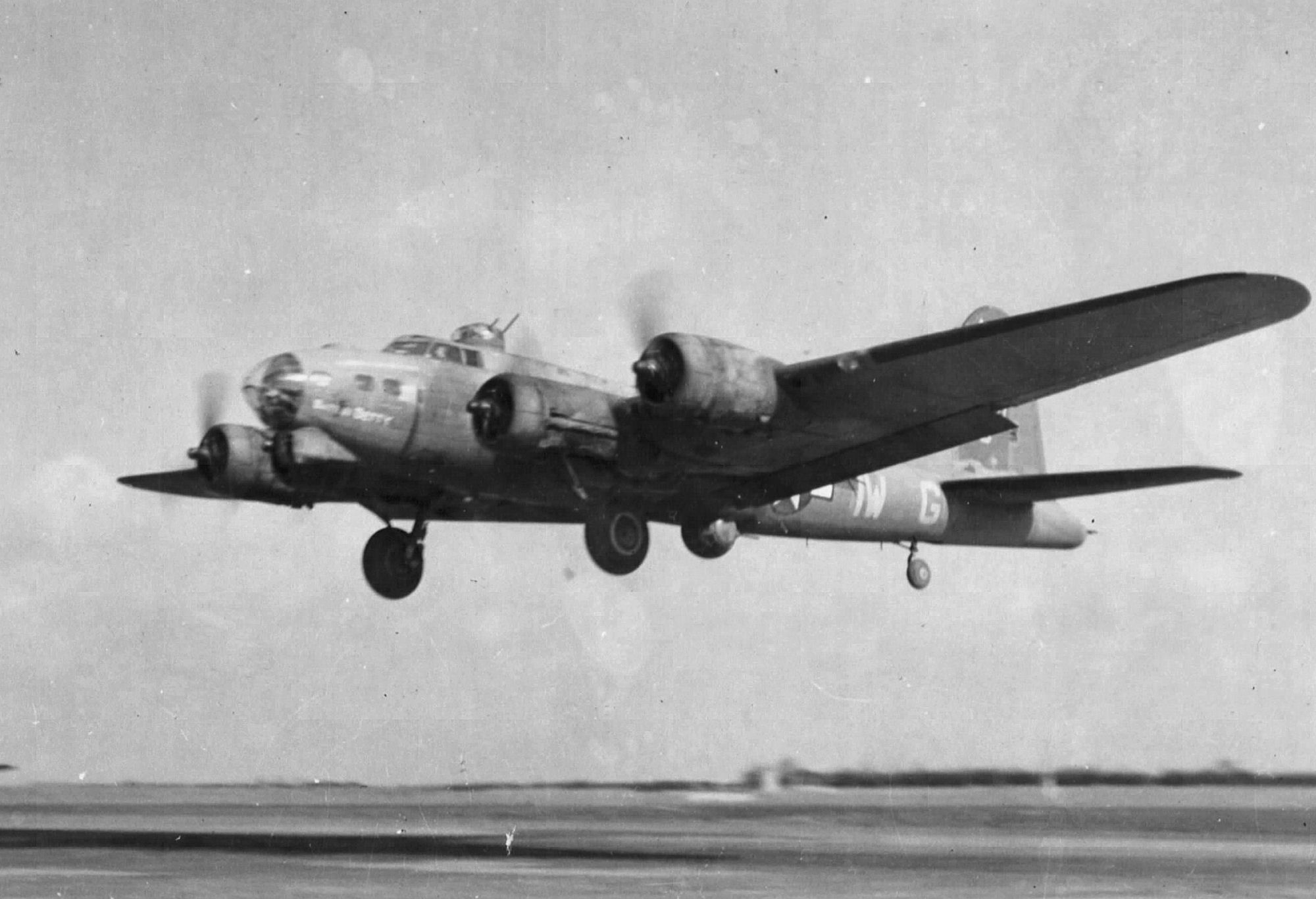 "Battlin' Betty" Vega B-17G-1-VE Flying Fortress s/n 42-39847 614th BS, 401st BG, 8th AF Shot down by flak and fighters on the April 11,1944 mission to bomb the synthetic oil refinery at Politz/Sorau. The entire crew became POW's Photo taken at: RAF Deenethorpe (AAF-128), England